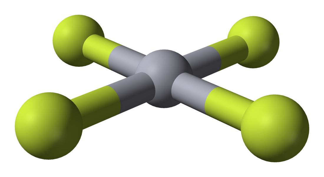 Ball-and-stick model of the mercury(IV) fluoride molecule, HgF4. Structural information from Xuefang Wang; Lester Andrews; Sebastian Riedel; and Martin Kaupp (2007). "Mercury Is a Transition Metal: The First Experimental Evidence for HgF4.". Angew. Chem. Int. Ed. 46 (44): 8371–8375.